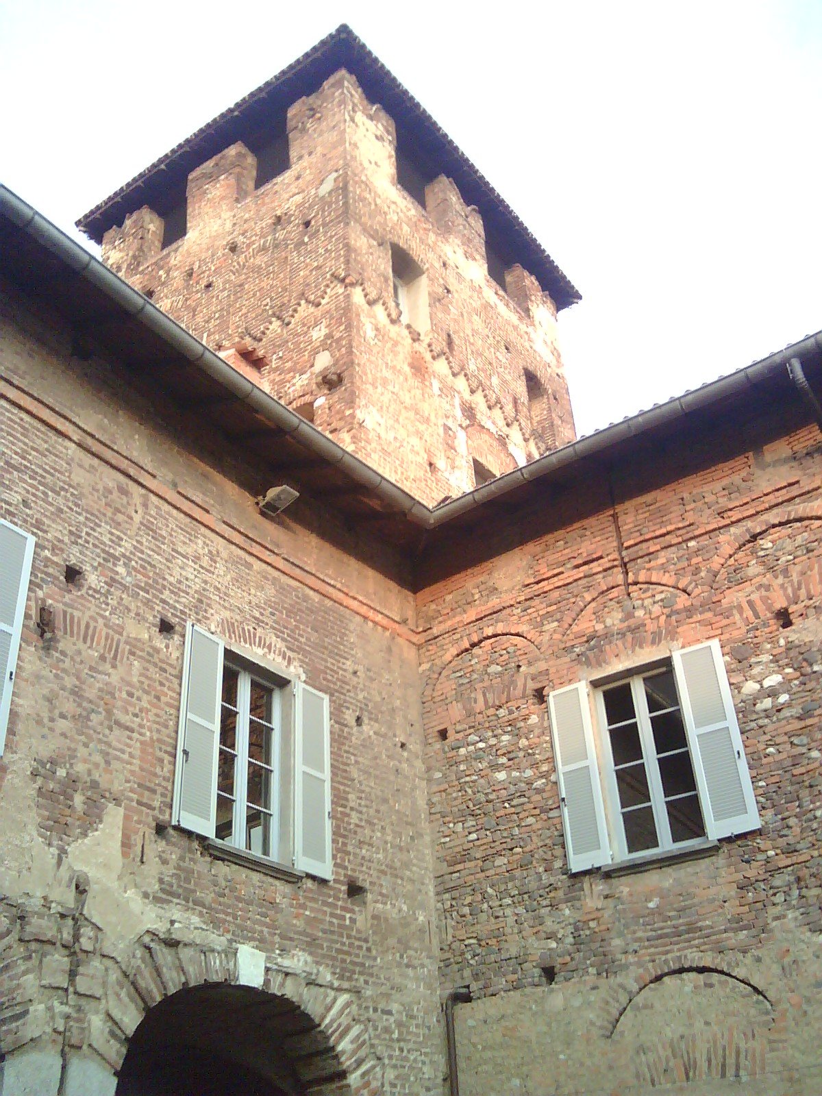 Fagnano's Castle